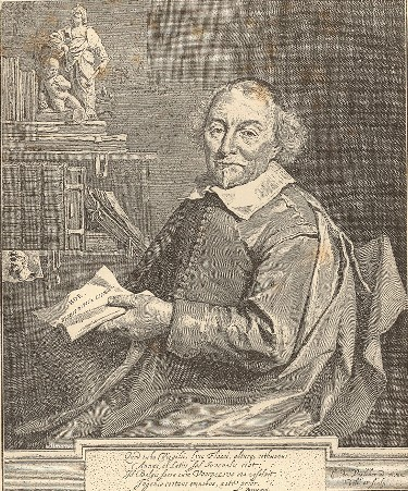 Portrait of seventeenth century Dutch writer Joost van den Vondel by Cornelis de Visscher.